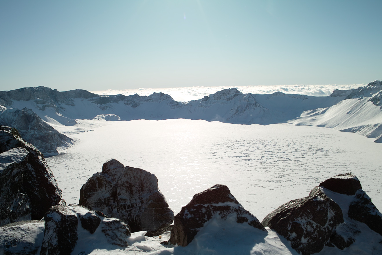 Baekdu Mountain, Jilin, China